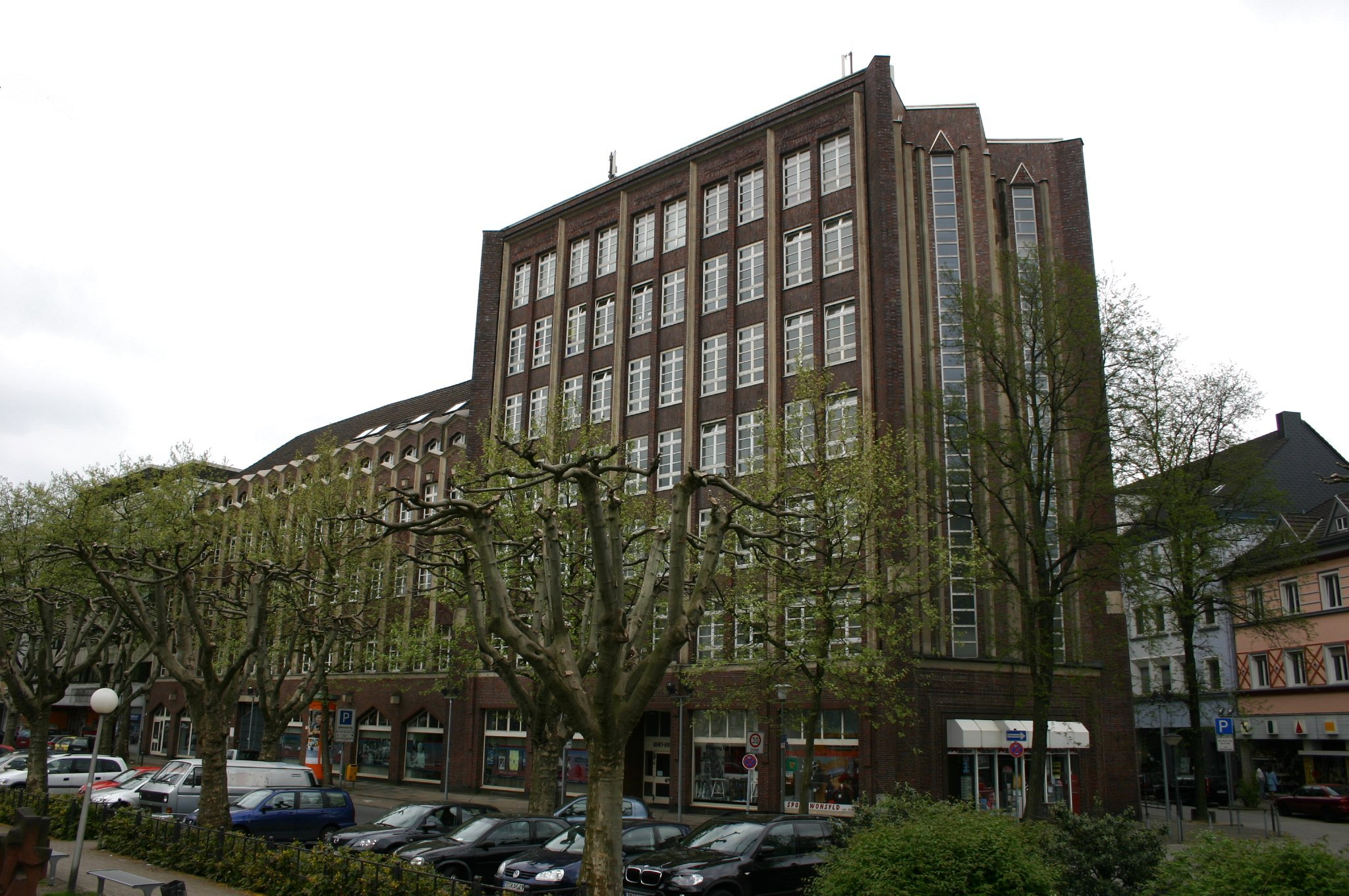 Bert-Brecht-House in Oberhausen (Germany)